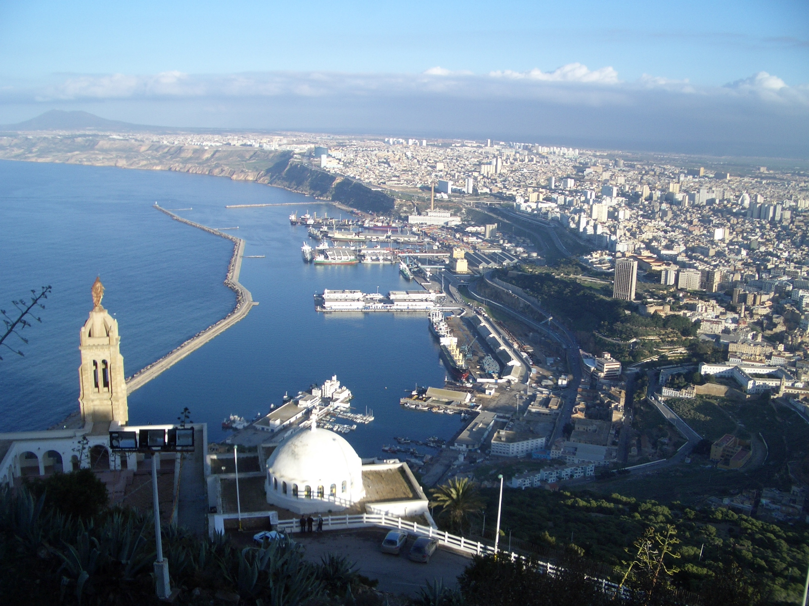 View of Oran from Murdjaju mountain